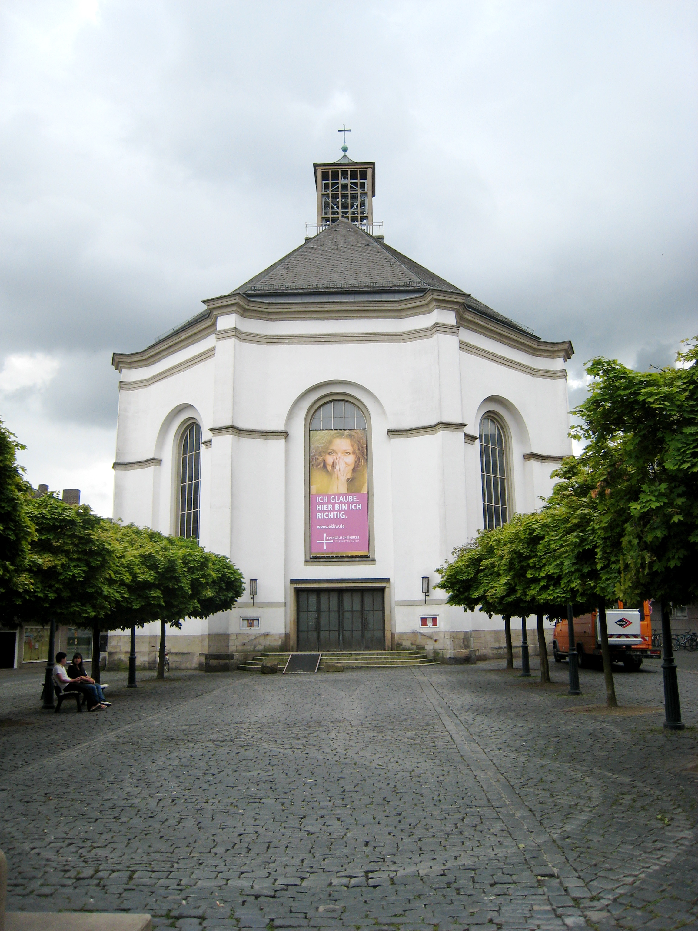 Karlskirche on Karlsplatz, bearing the name of landgrave Karl of Hesse-Kassel (1654-1730) who had it built for Huguenot refugees.